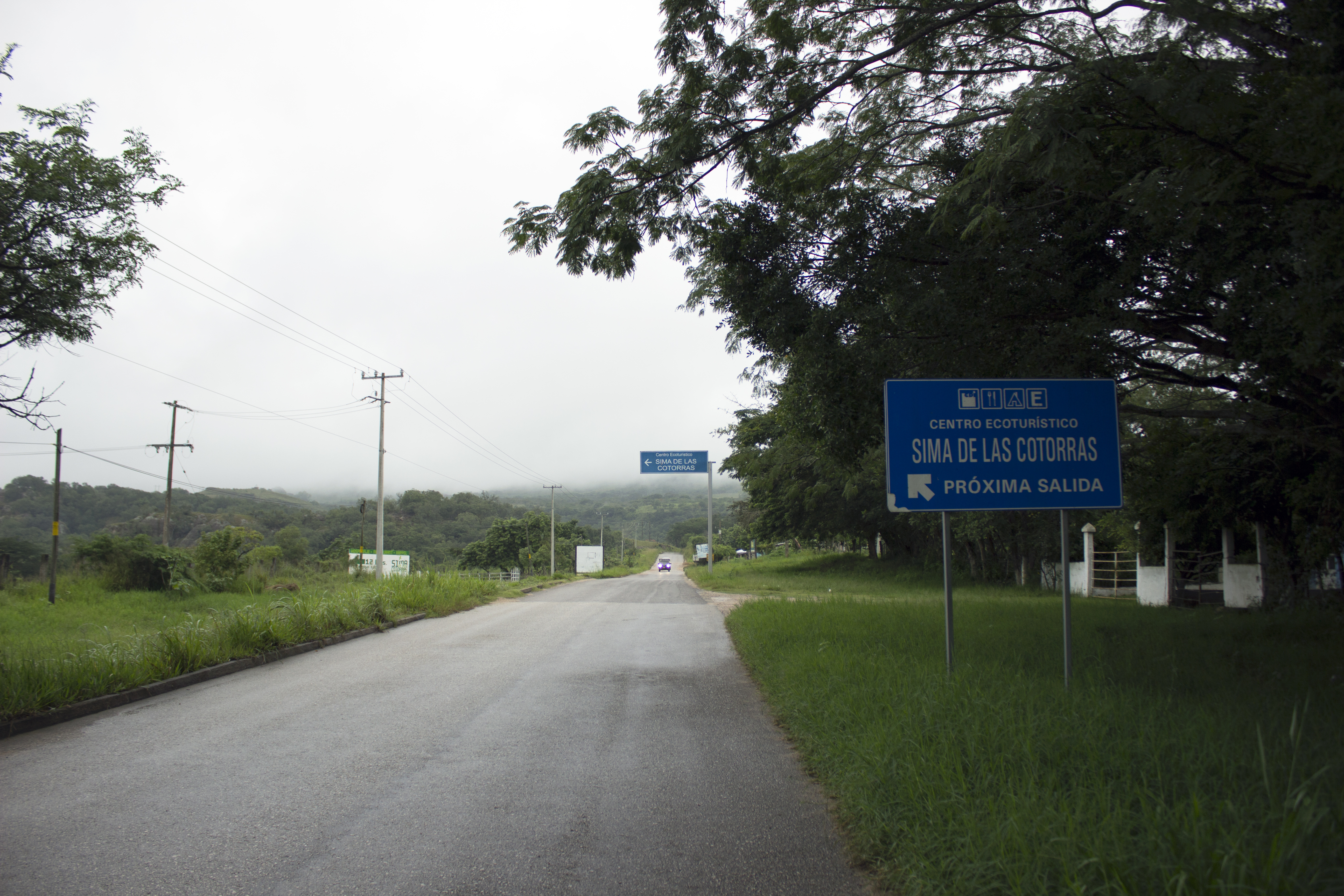 Sign on Highway 63 indicating the exit to Sima de las Cotorras.